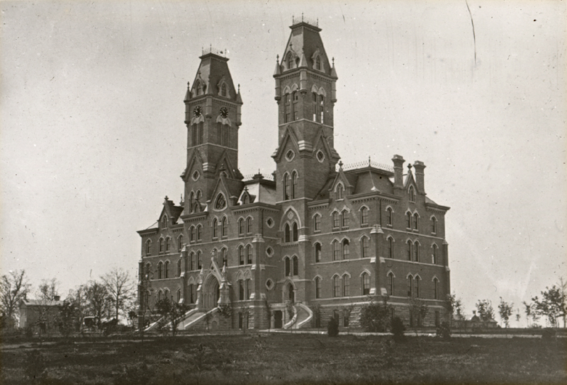 An early view of Kirkland Hall prior to fire